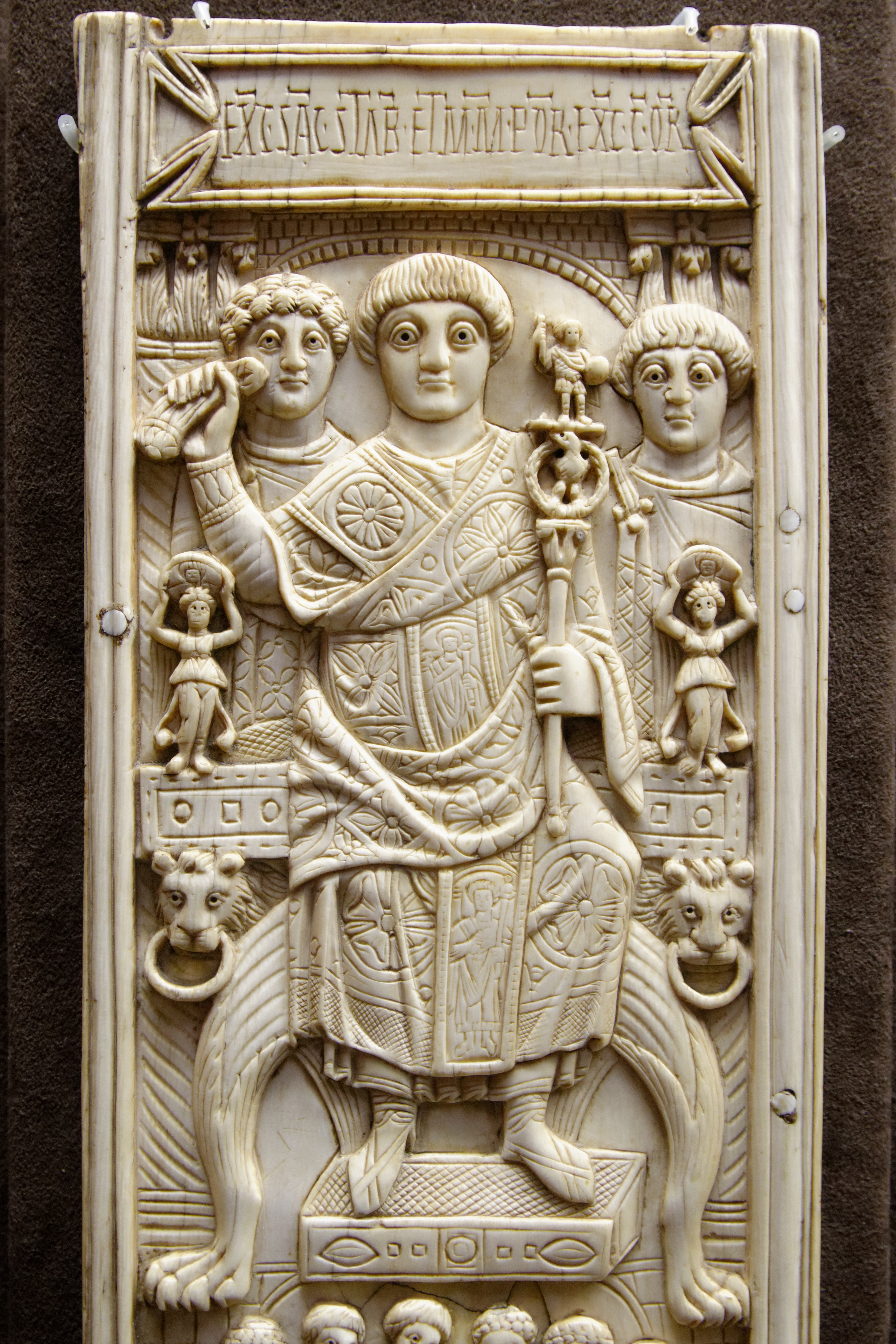 Leaf from a diptych with Consul Areobindus presiding over the games, made for his consulship in 506.